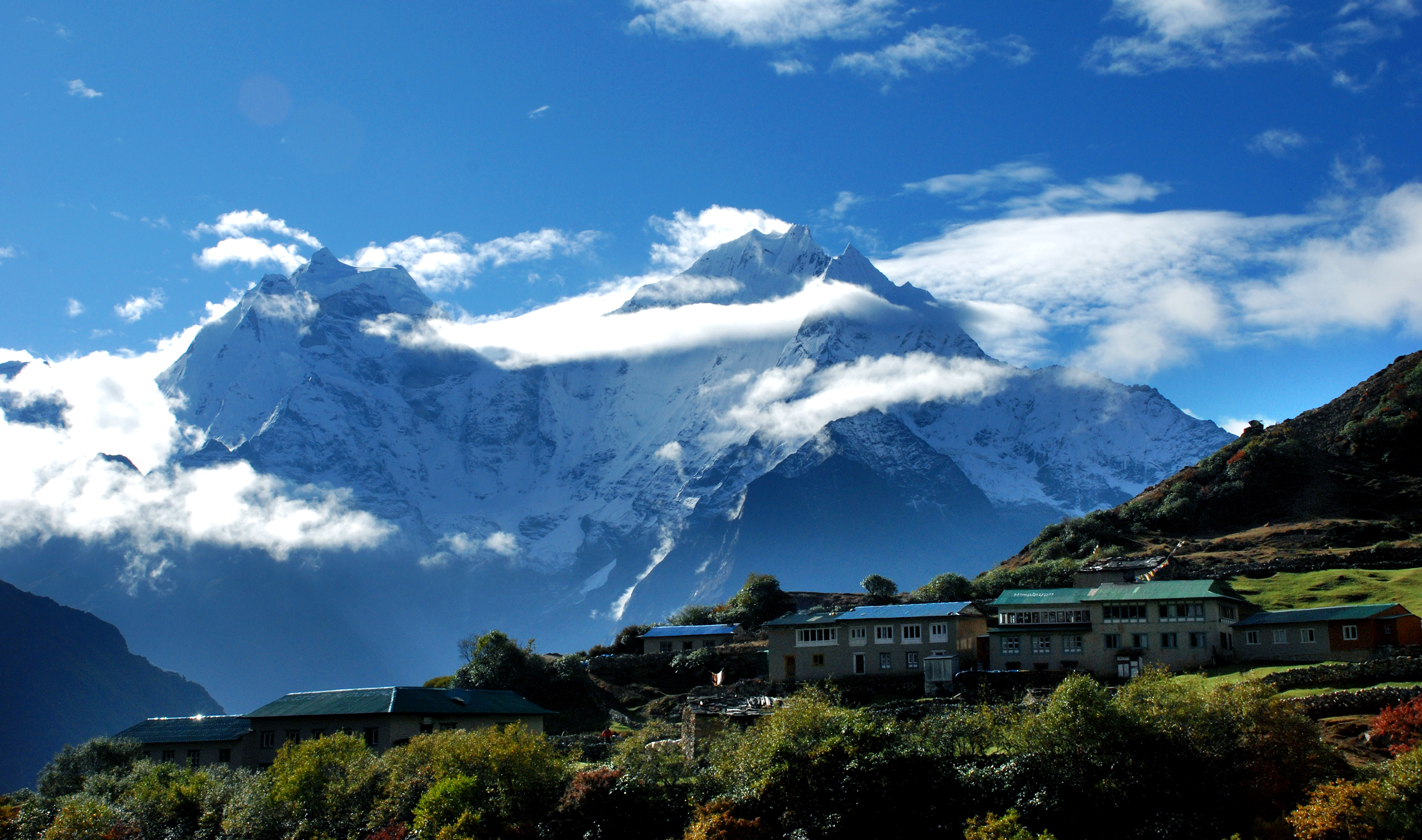 A view of Dole Village and Mount Thamserku(Elevation:6,608 m (21,680 ft)) at the background, Khumbu region, Sagarmatha National Park on the way to Gokyo, Nepal नेपाली: सगरमाथा राष्ट्रिय निकुञ्ज स्थित डोले गाउँ र पछाडि देखिएको थामसेर्कु हिमालको मनोरम दृश्य ।